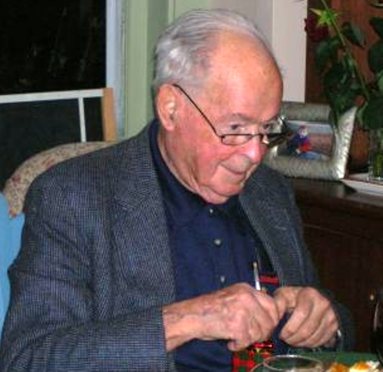 Photo of Ambassador and Professor Lincoln Gordon, 2006.